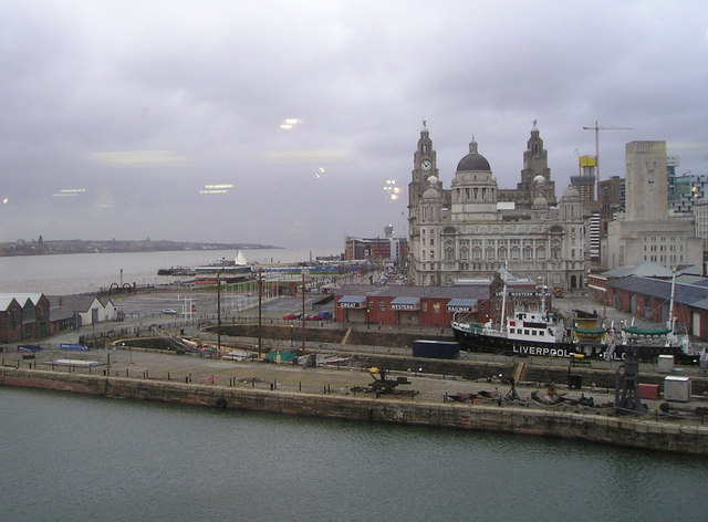 Canning Half-tide Dock, Liverpool With the pier head complex beyond.